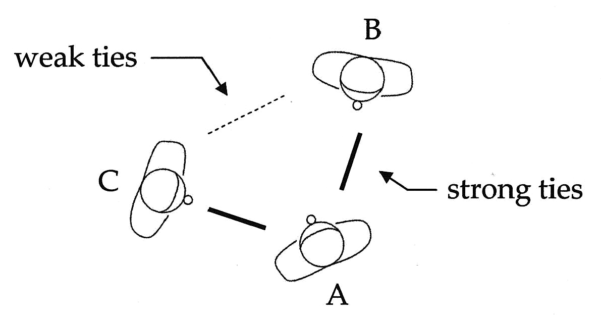 Author: User:Sadi Carnot; Created on MS Word; Date = 10/03/06 Similar versions found in Granovetter's "The Strength of the Weak Tie" (1973) and Barabasi's Linked (2003).